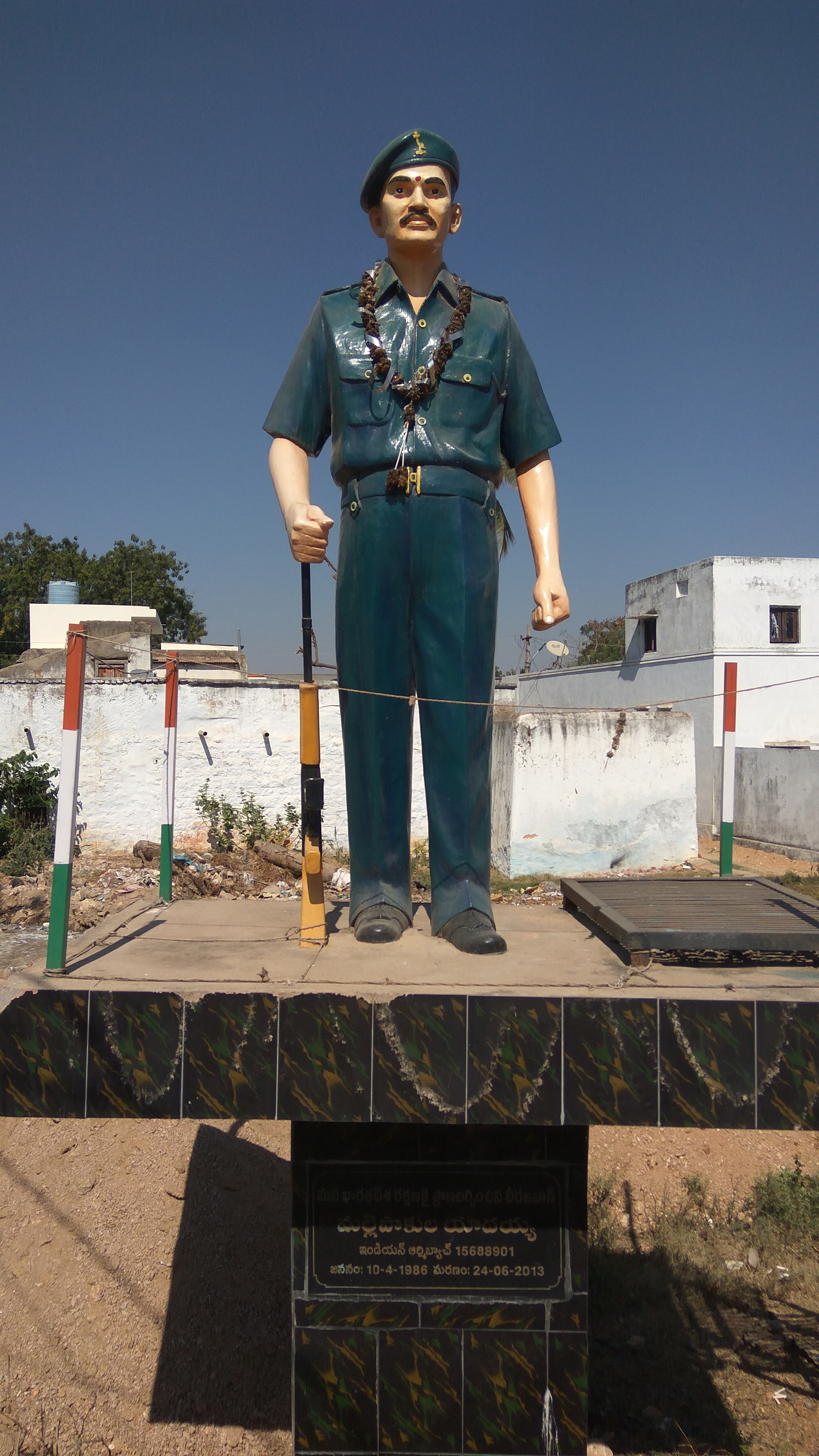 Indian Soldier Mallepakula Yadaiah died in Indian War in 2013. He belongs to Kondareddypalli Village, Vangooru Mandal, Nagar Karnool District Telangana State